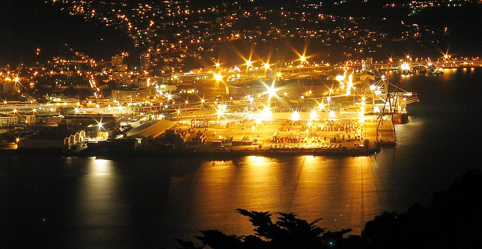 CentrePort, the Port of Wellington, New Zealand, at night. Detail from Image:Wellington City Night.jpg